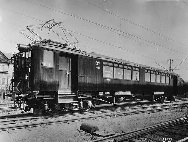 Norwegian State Railways (NSB) Class 62 electric multiple unit